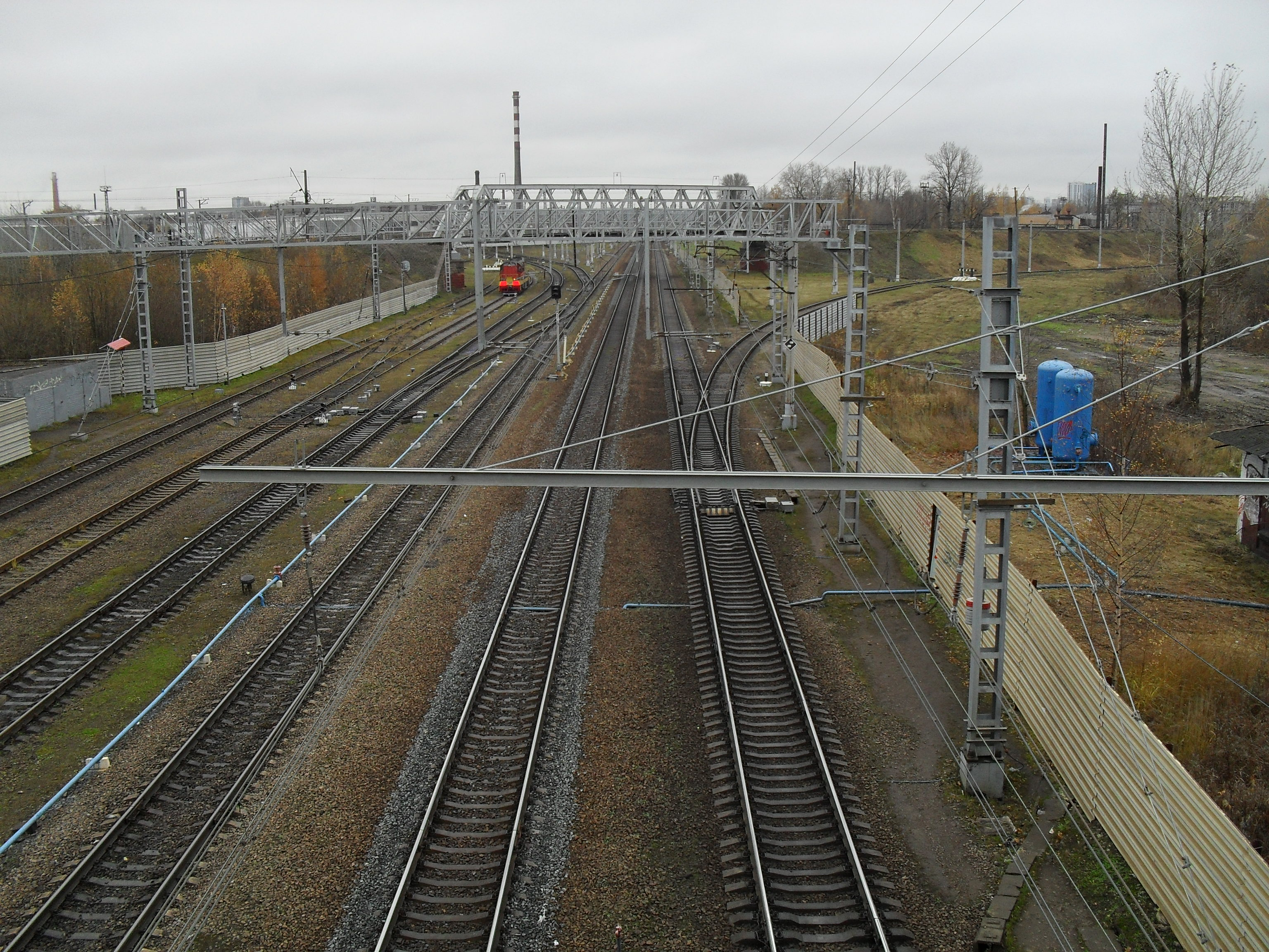 Soedinitelnaya junction